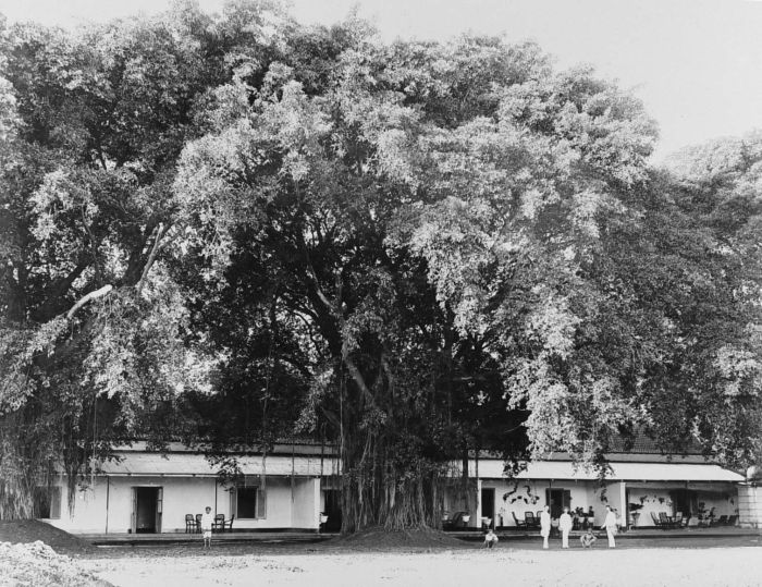 Waringin tree with a house in Sumberkareng, East-Java.